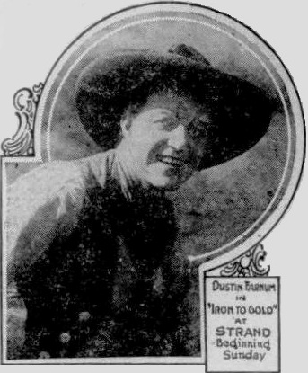 Newspaper advertisement for the American western film Iron to Gold (1922) with Dustin Farnum, overlapping ads for other films removed from image, on page 8 of the June 10, 1922 Duluth Herald.